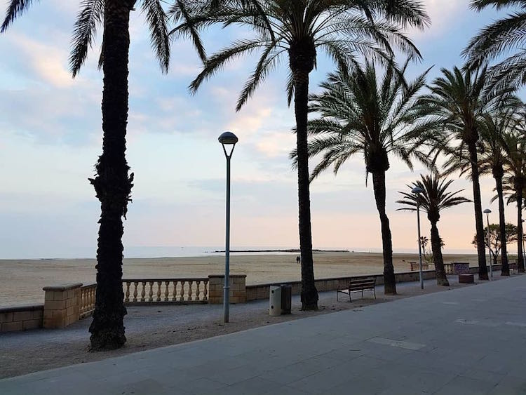 Costa Barcelona sunset in village Vilanova i la Geltrù